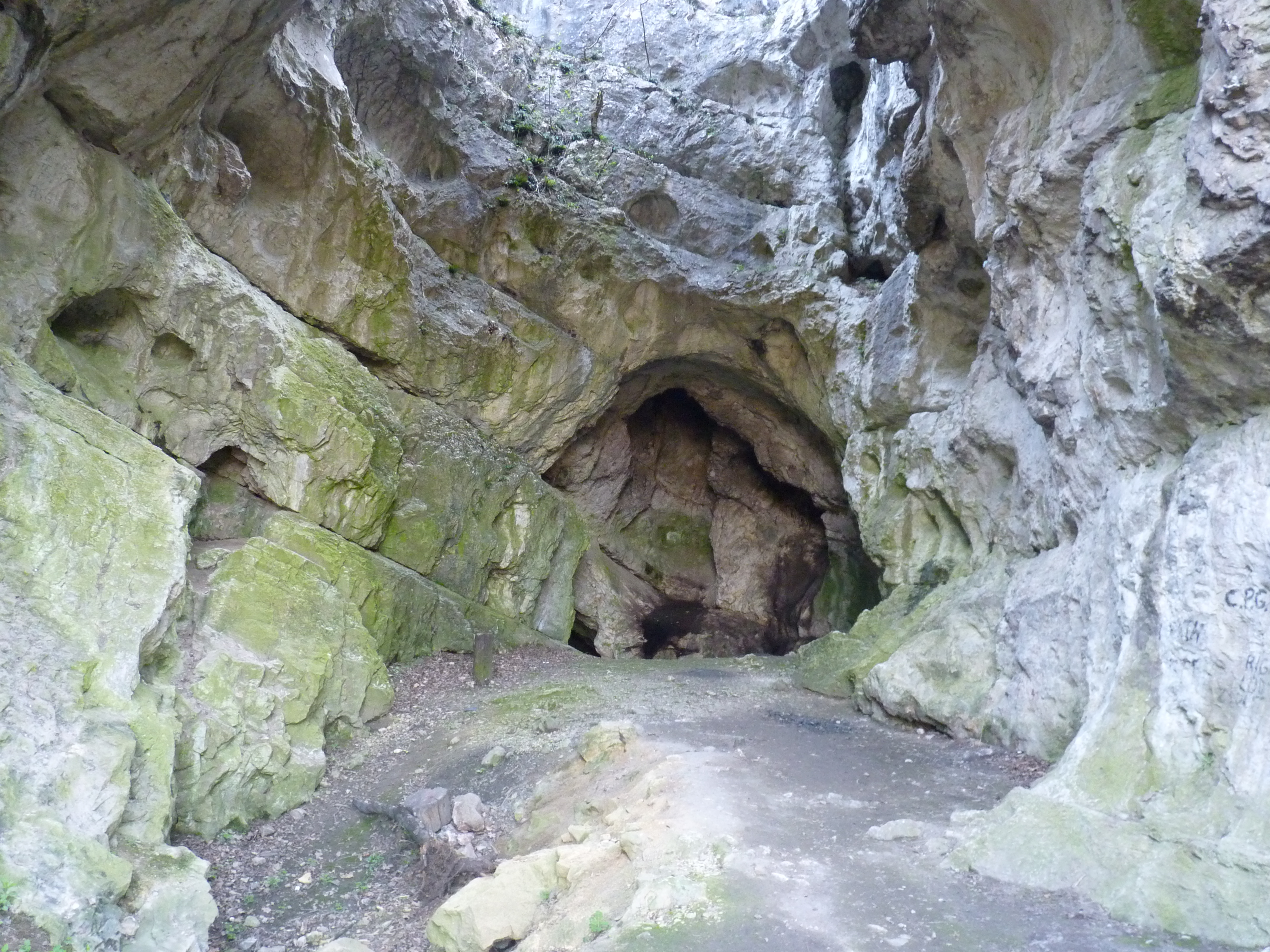 Jankovich Cave